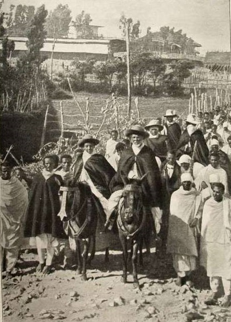 Photograph showing 14-year-old Lij Iyasu with regent Ras Tassamma in late 1909. Published in the 1 January 1910 issue of the French magazine L'Illustration. Lij Iyasu assumed power after Ras Tassamma suddenly died in April 1911.